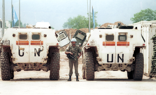 UN french peacekeepers at Sarajevo airport in 1993, during the siege of Sarajevo. Photo by Mikhail Evstafiev